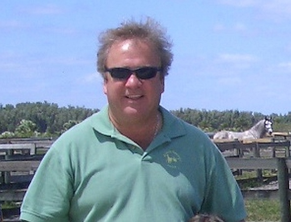 Polo player and business man Tim Gannon.